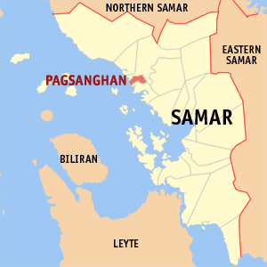 Map of Samar showing the location of Pagsanghan